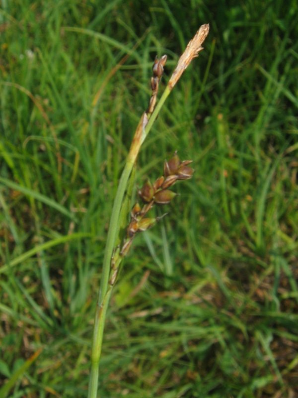 Hirse-Segge Carex panicea, Warnow-Wiesen